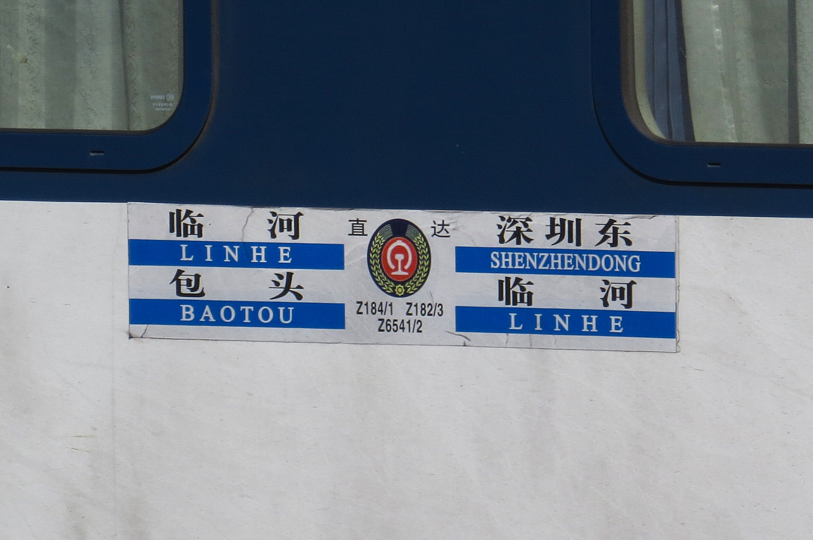 Bayannur managed to "add value", and Baotou-Shenzhendong train extended to Linhe, seat of Bayannur City.